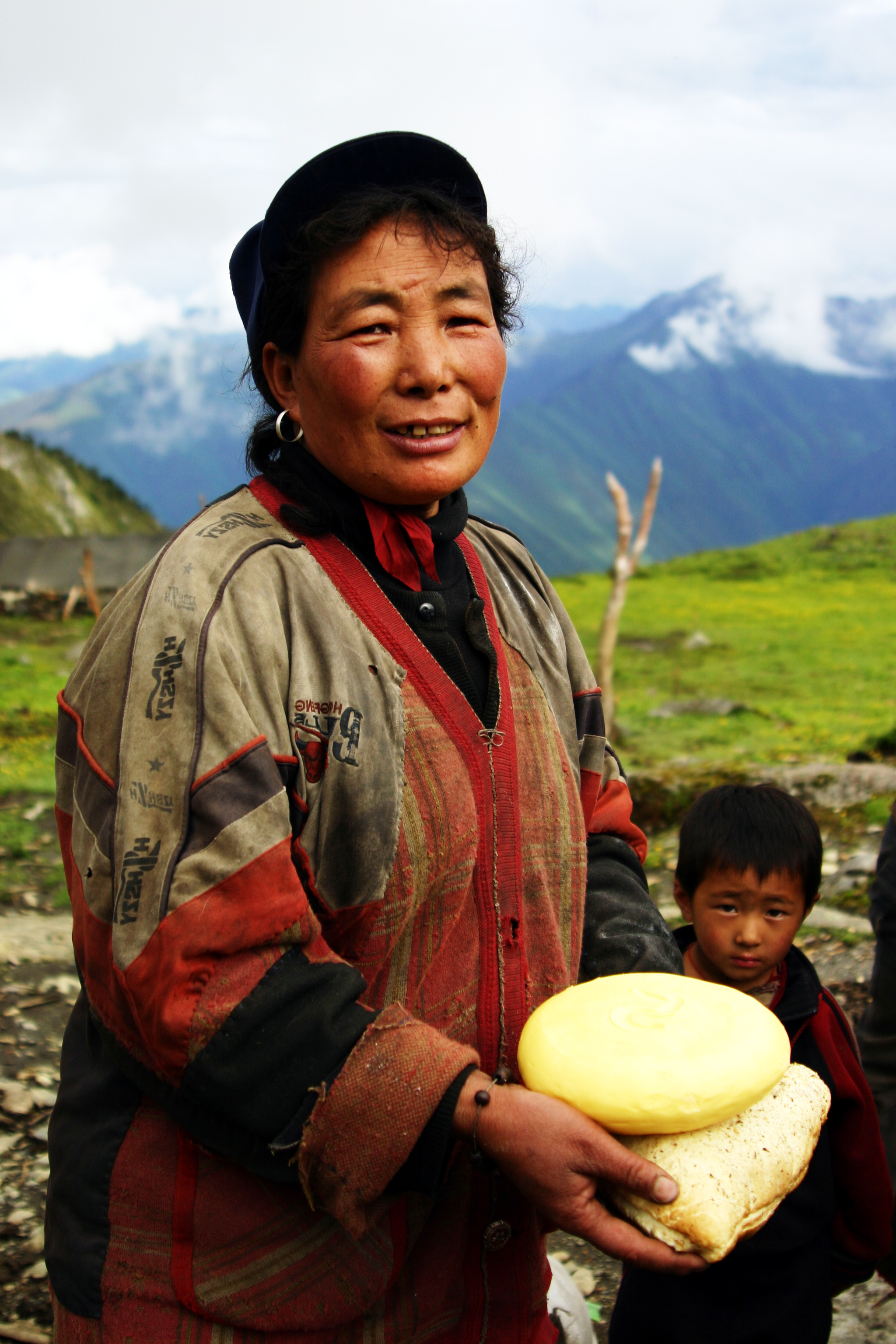 Yunnan woman with yak cheese.